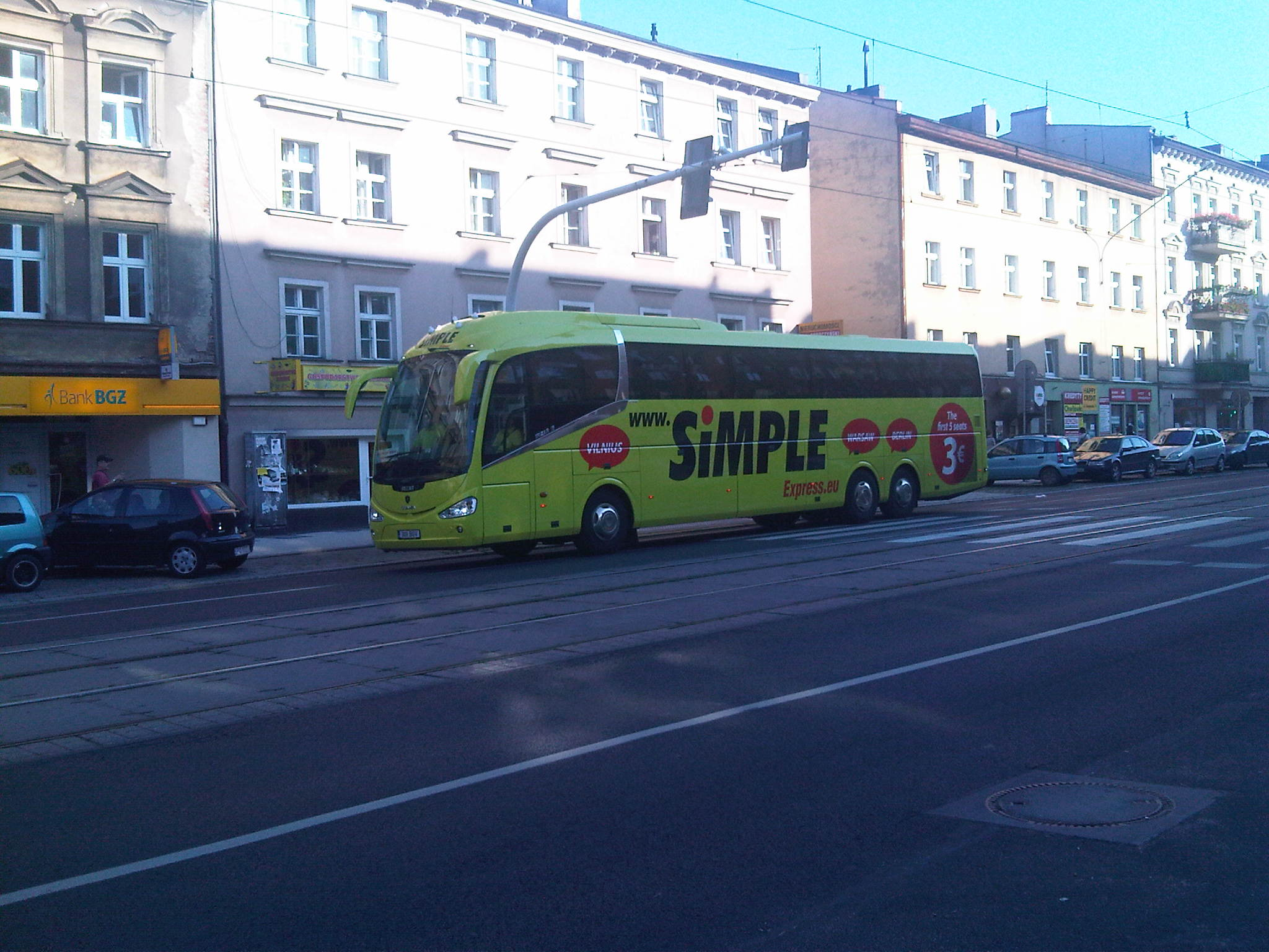 Simple Express bus in Poznań on Głogowska street.